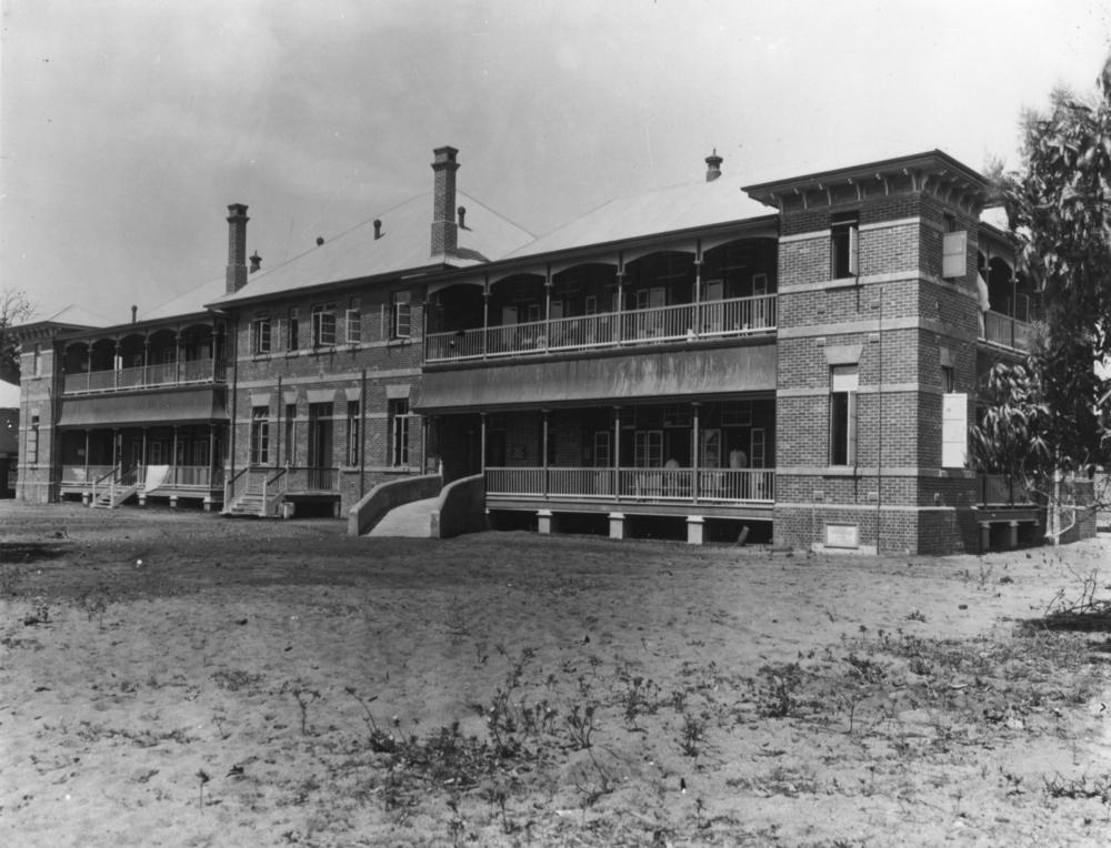 Cairns Hospital after completion, ca. 1914 Photograph produced from a glass negative no. 20. (Description supplied with photograph).